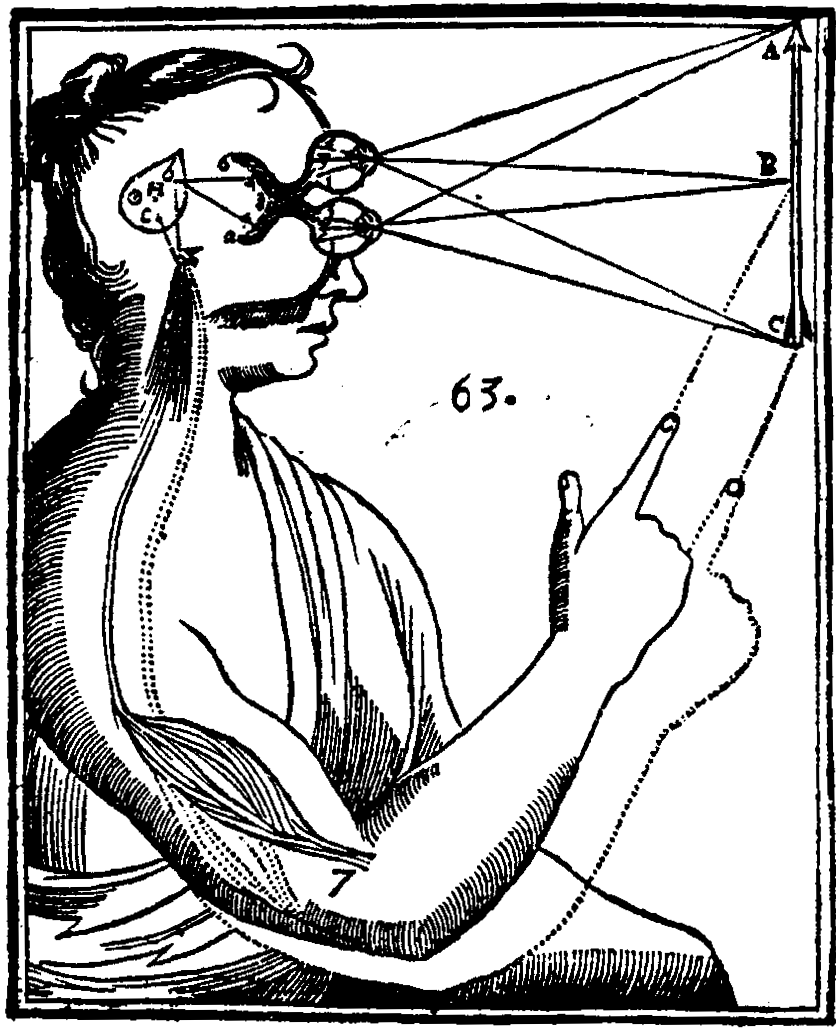 Diagram from one of René Descartes' works.